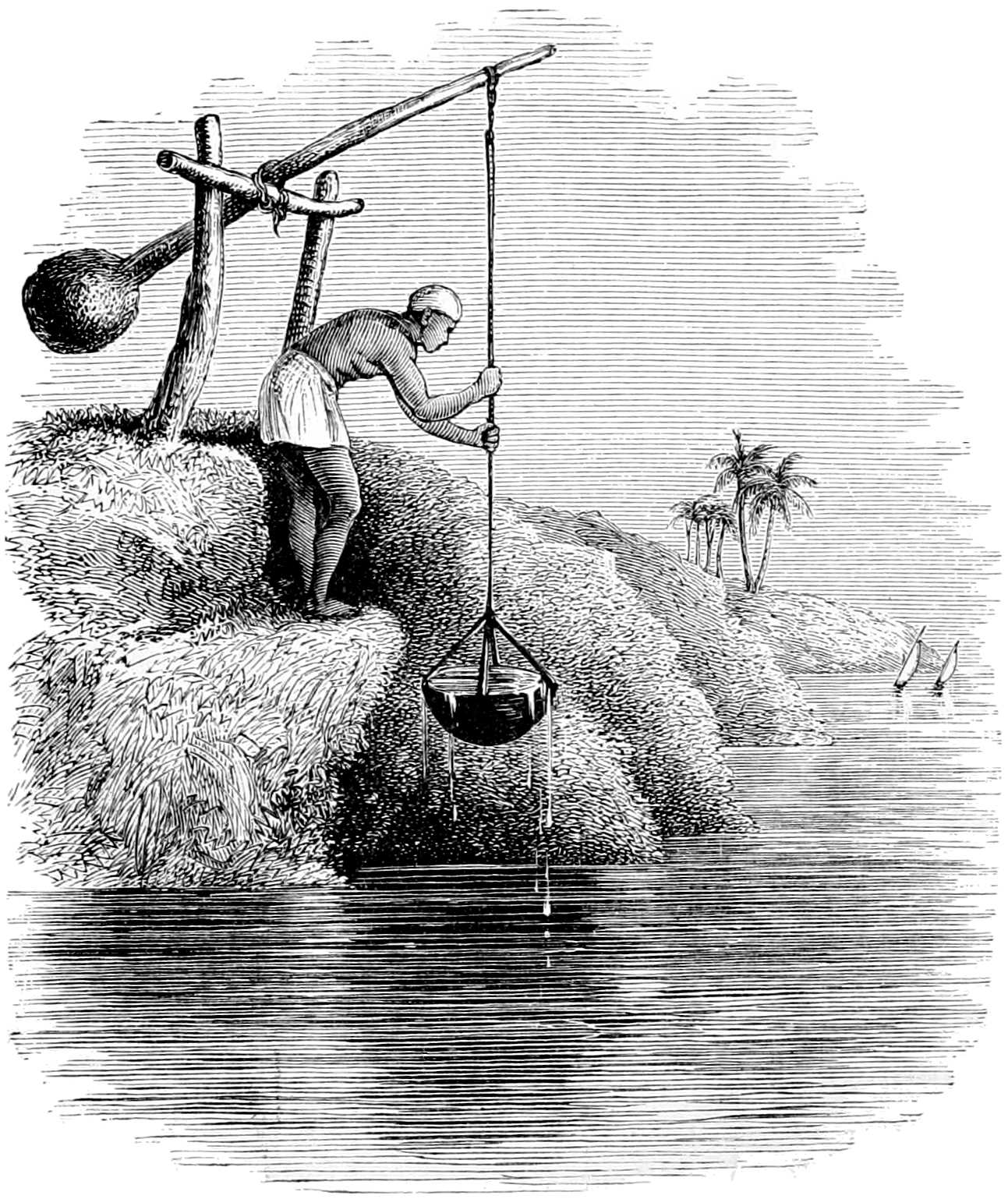 en:Illustration of a shaduf. A man lifts water from the river using a counterweighted lever called a "shaduf" or "shadoof".